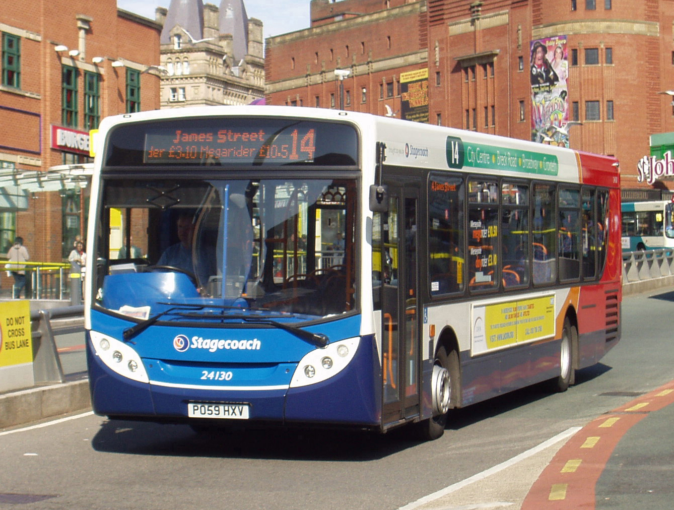 Stagecoach Merseyside MAN 18.240 with Alexander Dennis Enviro300 bodywork PO59 HXV in Queen Square Bus Station, Liverpool